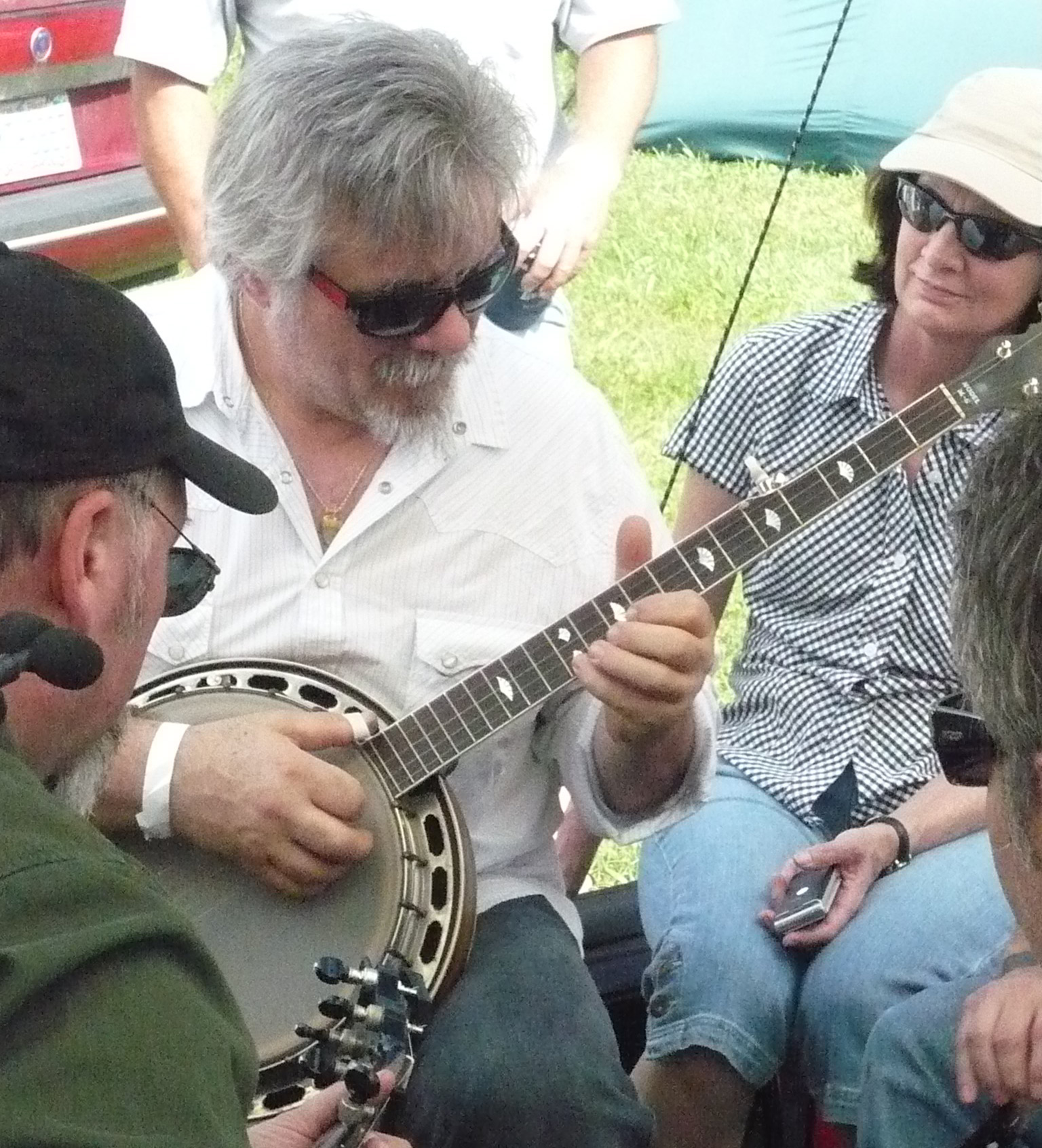 The Italian old-time musician Rafe Stefanini playing banjo in a jam session at his camp site, at the 2009 Mount Airy Fiddlers Convention. Photo taken on Friday, June 5, 2009 at Veterans Memorial Park in Mount Airy, United States.